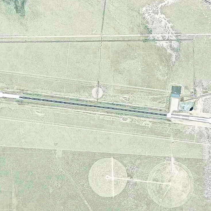 USGS digital orthophoto of Amedee Army Airfield in California